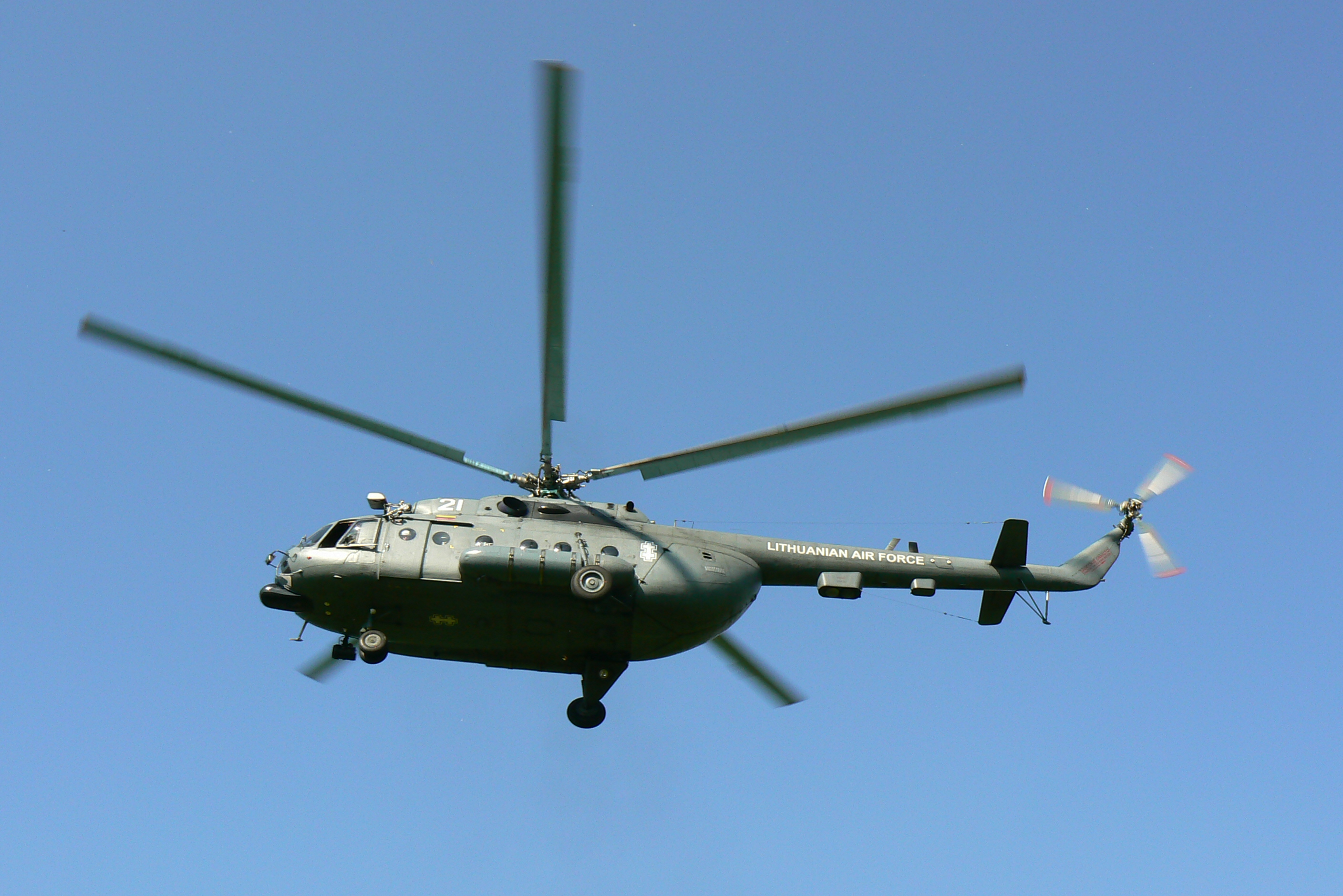 Lithuanian Air Force Mi-8MTV-1 in service.